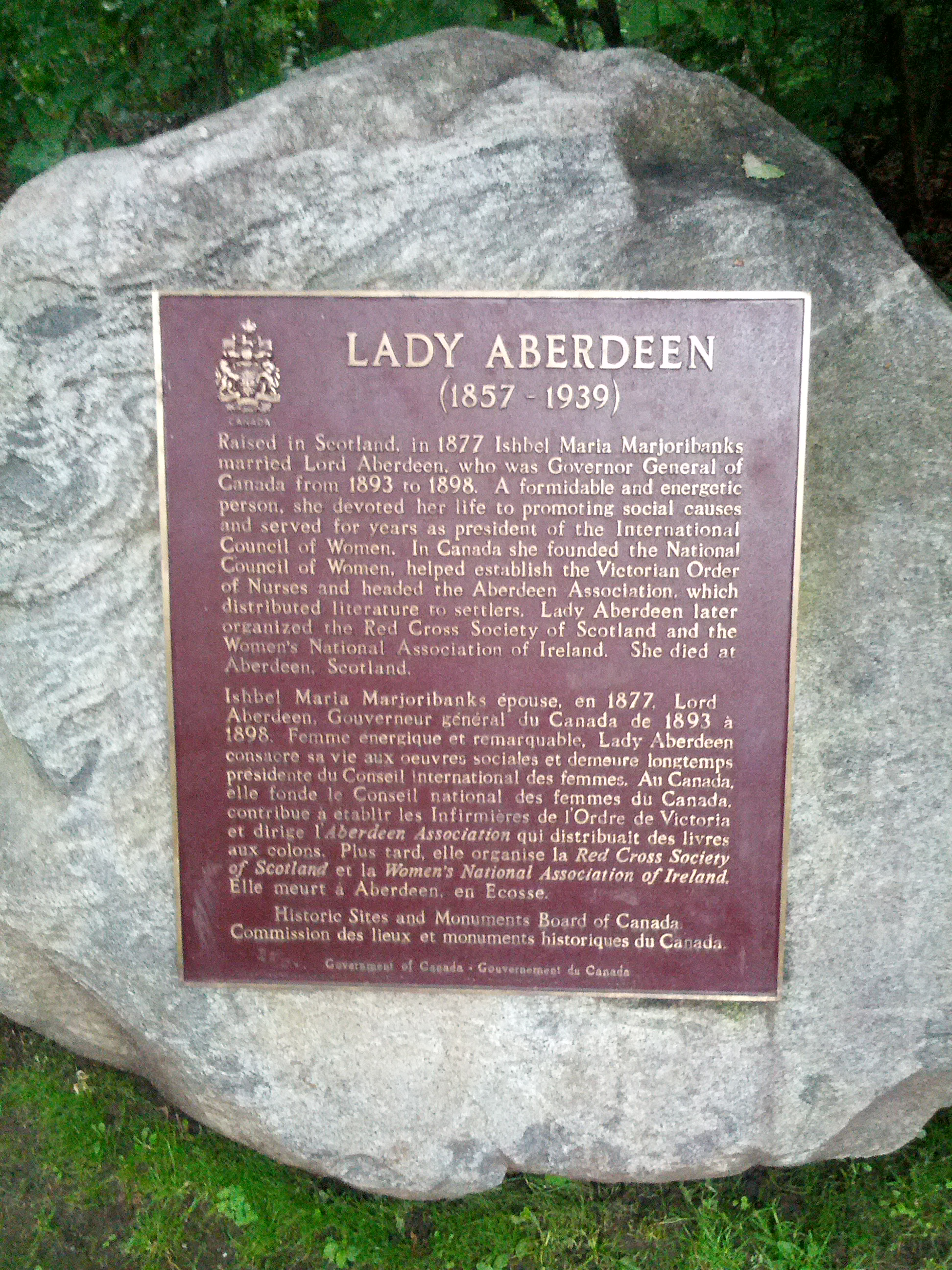 Sign about Lady Aberdeen, in Ottawa.